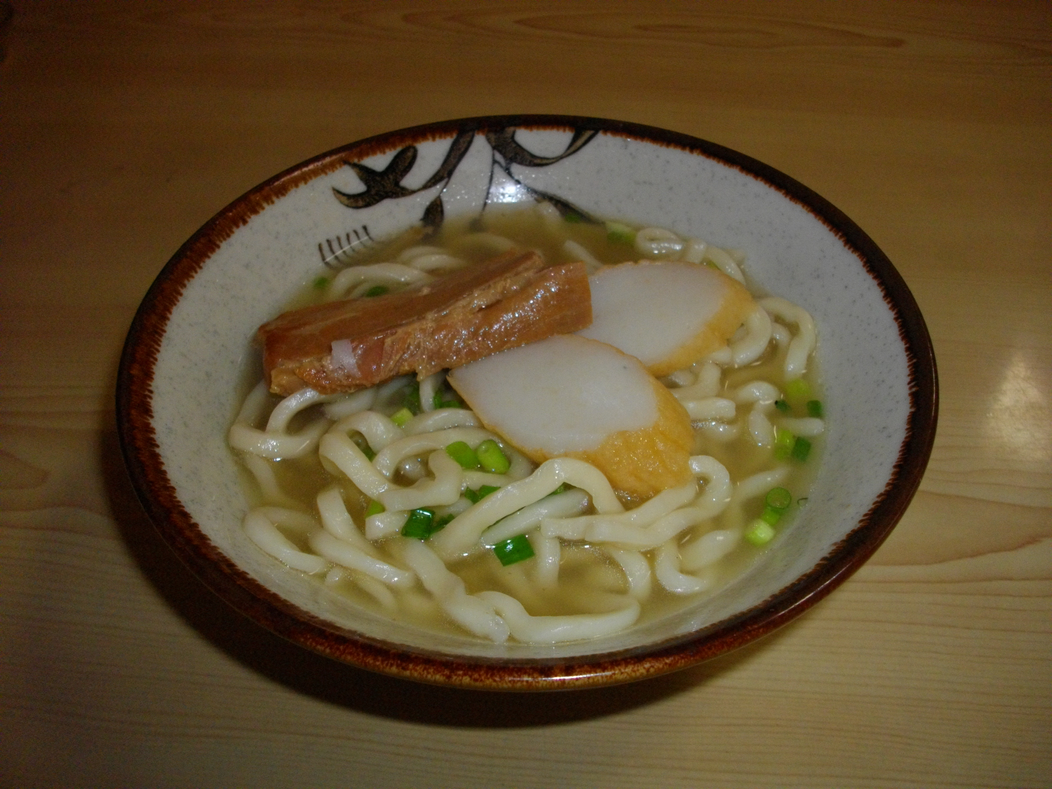 Daito Soba